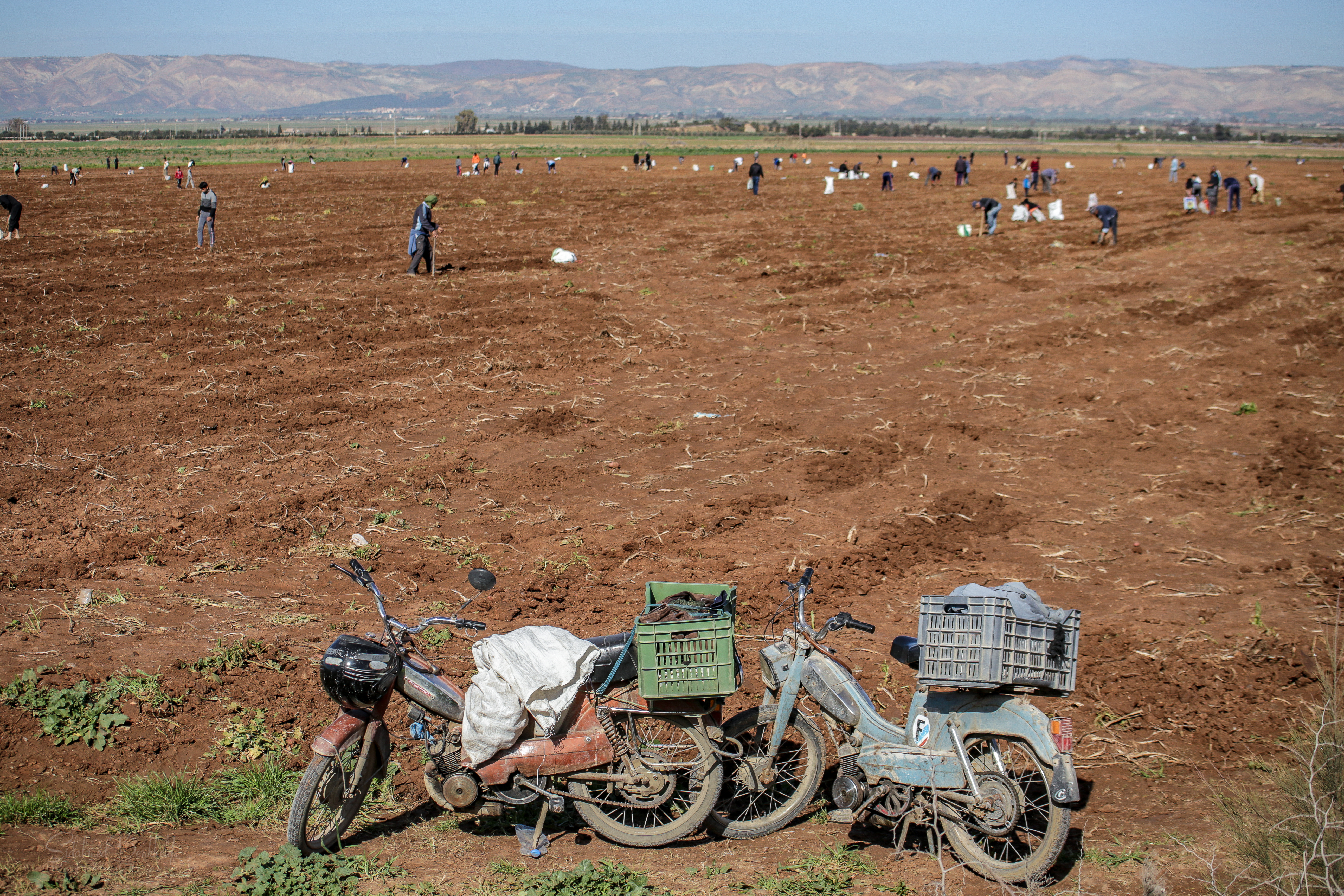 This is an image with the theme "Africa on the Move or Transport" from: Algeria